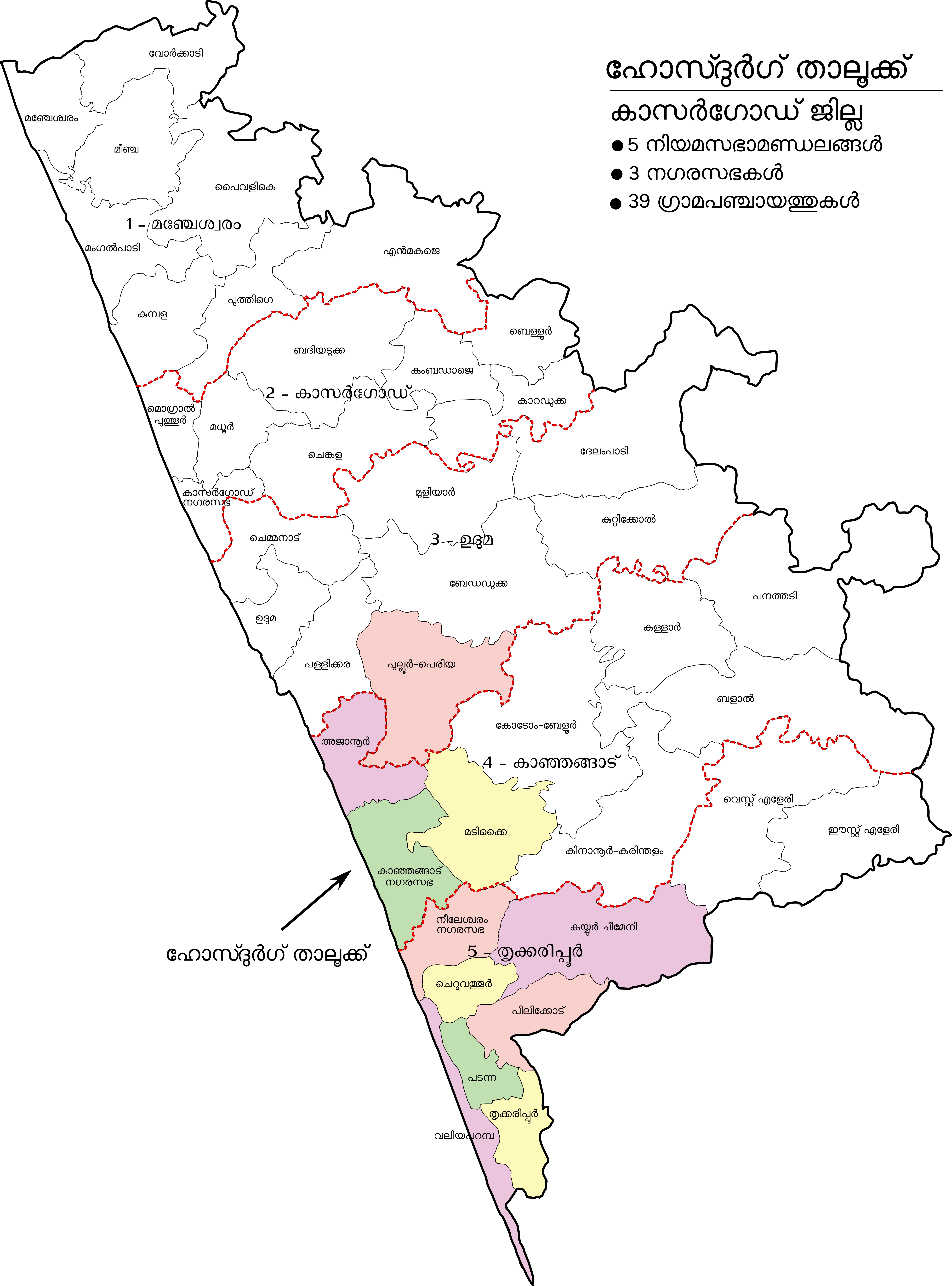 Blocks and Grama-panchayats of Hosdurg Thaluk